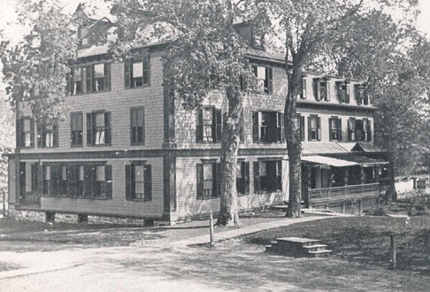 This is a photograph of the Curtis School for Boys (today the Brookfield Theatre for the Arts), as seen in 1883.